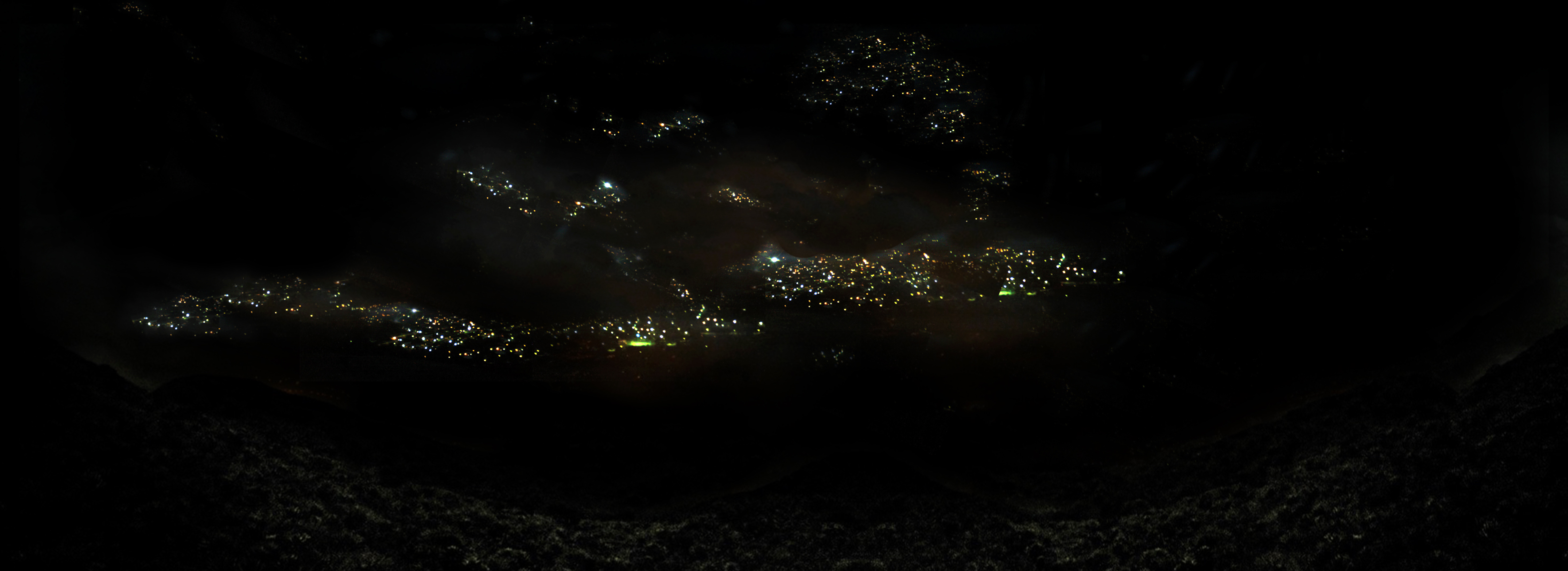 Panoramic nighttime view of central Salom, Nirgua, Yaracuy, Venezuela